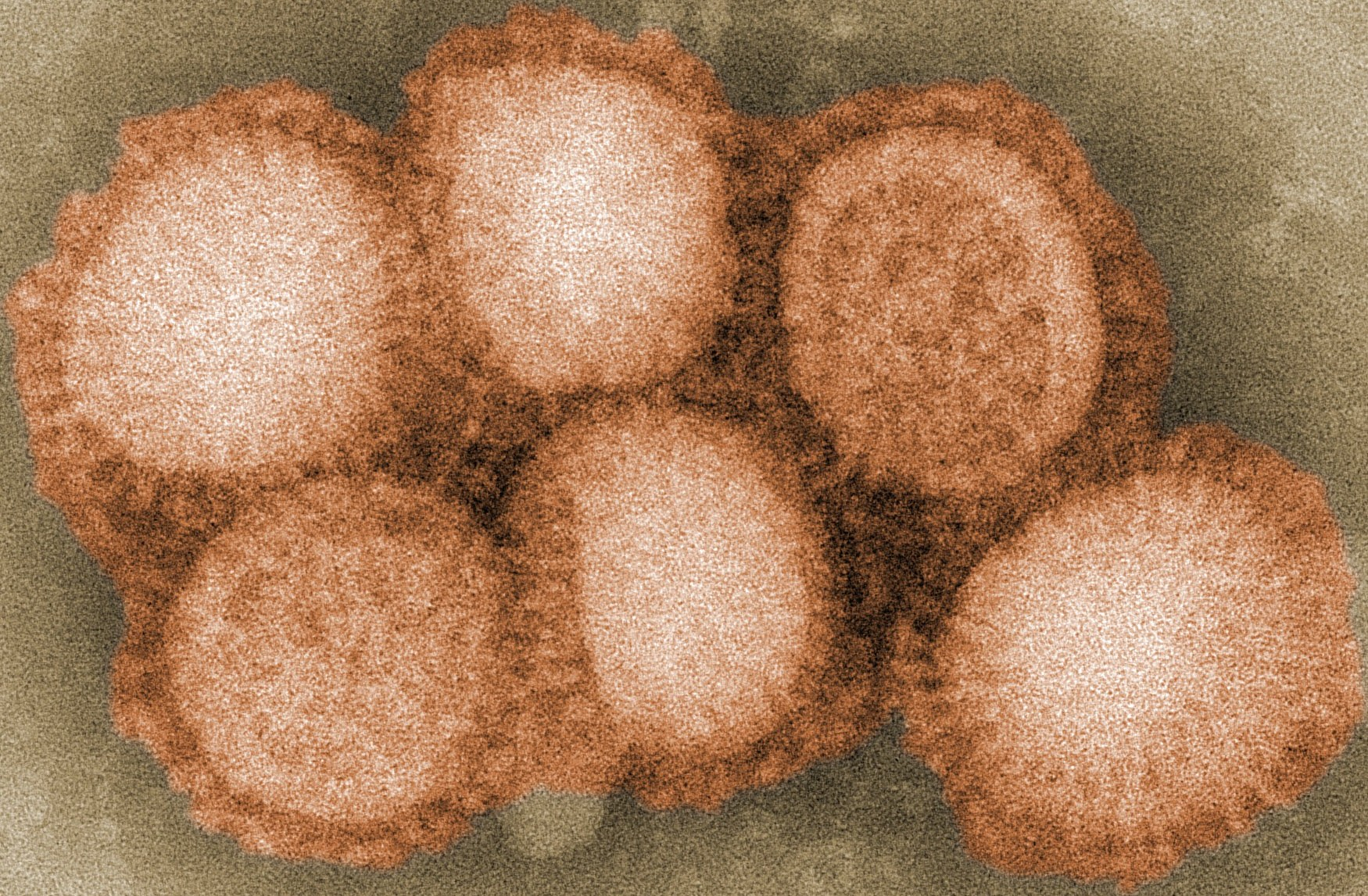 Modified version of File:CDC-11214-swine-flu.jpg for landscape aspect.